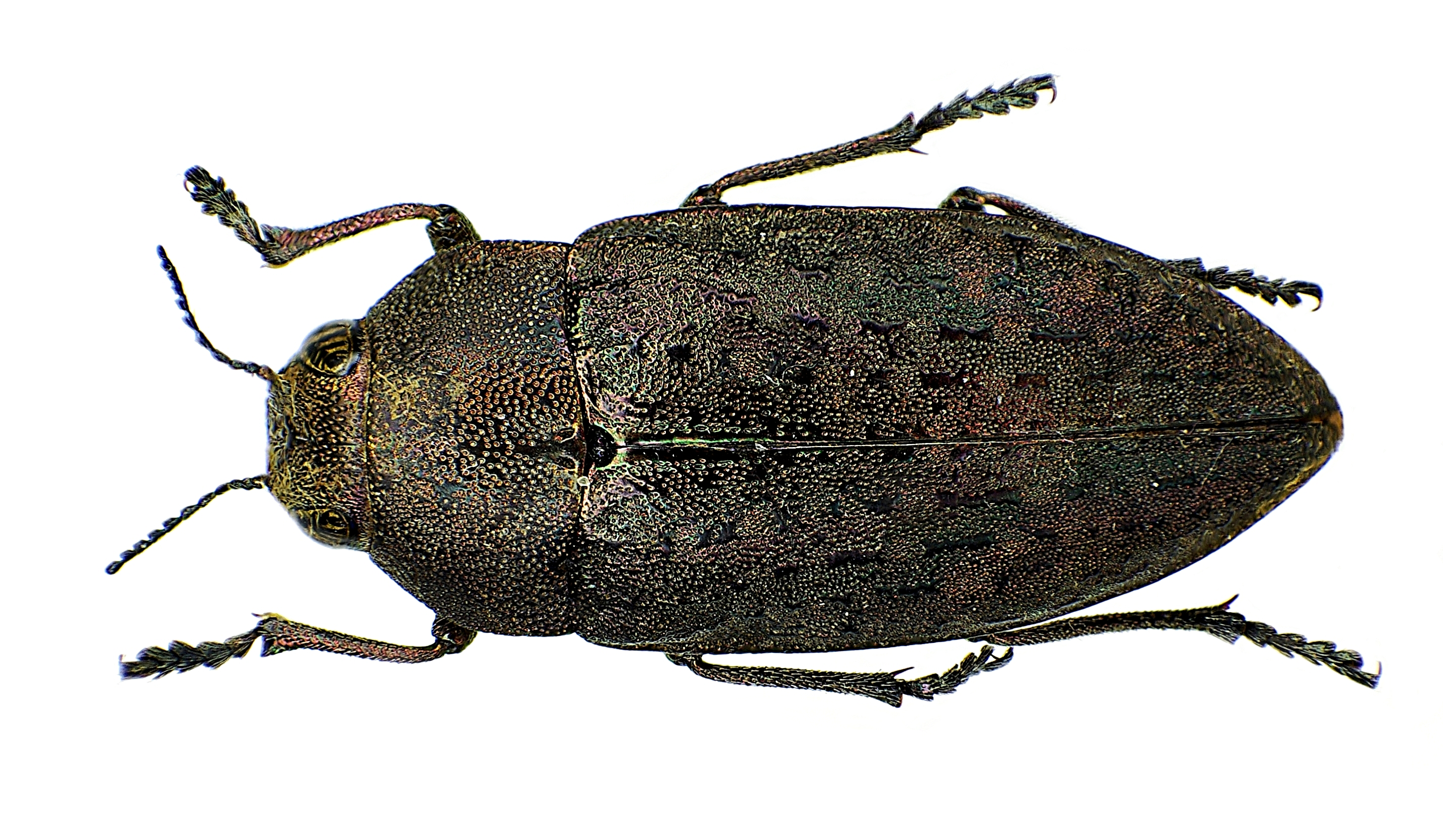 Perotis lugubris from Greece